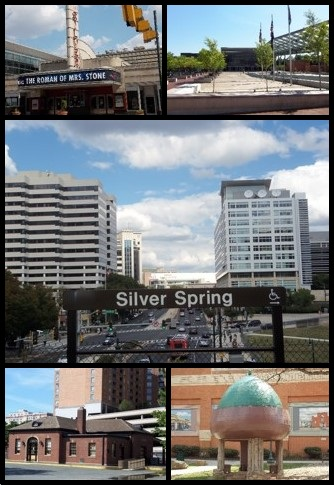 Images of Silver Spring, Maryland include the AFI Silver Theater, Veteran's Plaza and the civic building, the downtown area from the Metro station with the Silver Spring sign in the foreground, the former B&O rail station and Acorn Park, which is the site of a mica-flecked spring from which the community receives its name.